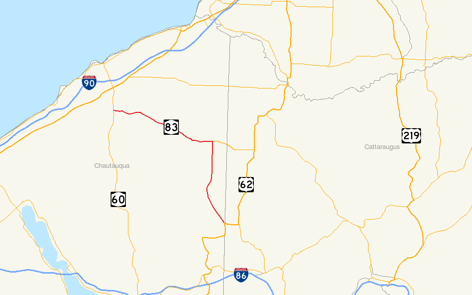 NY 83 map of routing